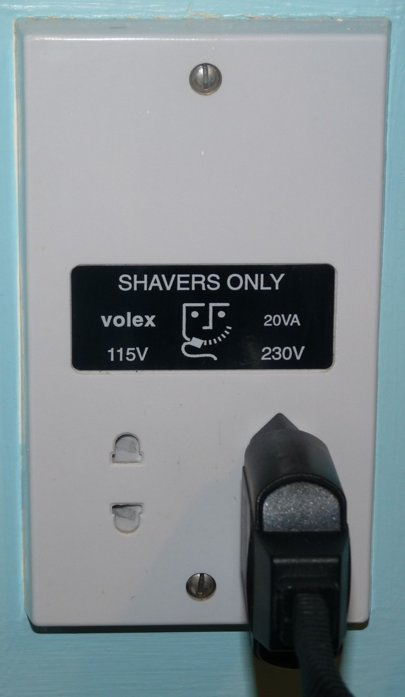 A standard british shaver socket with two voltage outlets - used to illustrate the use of an isolating transformer